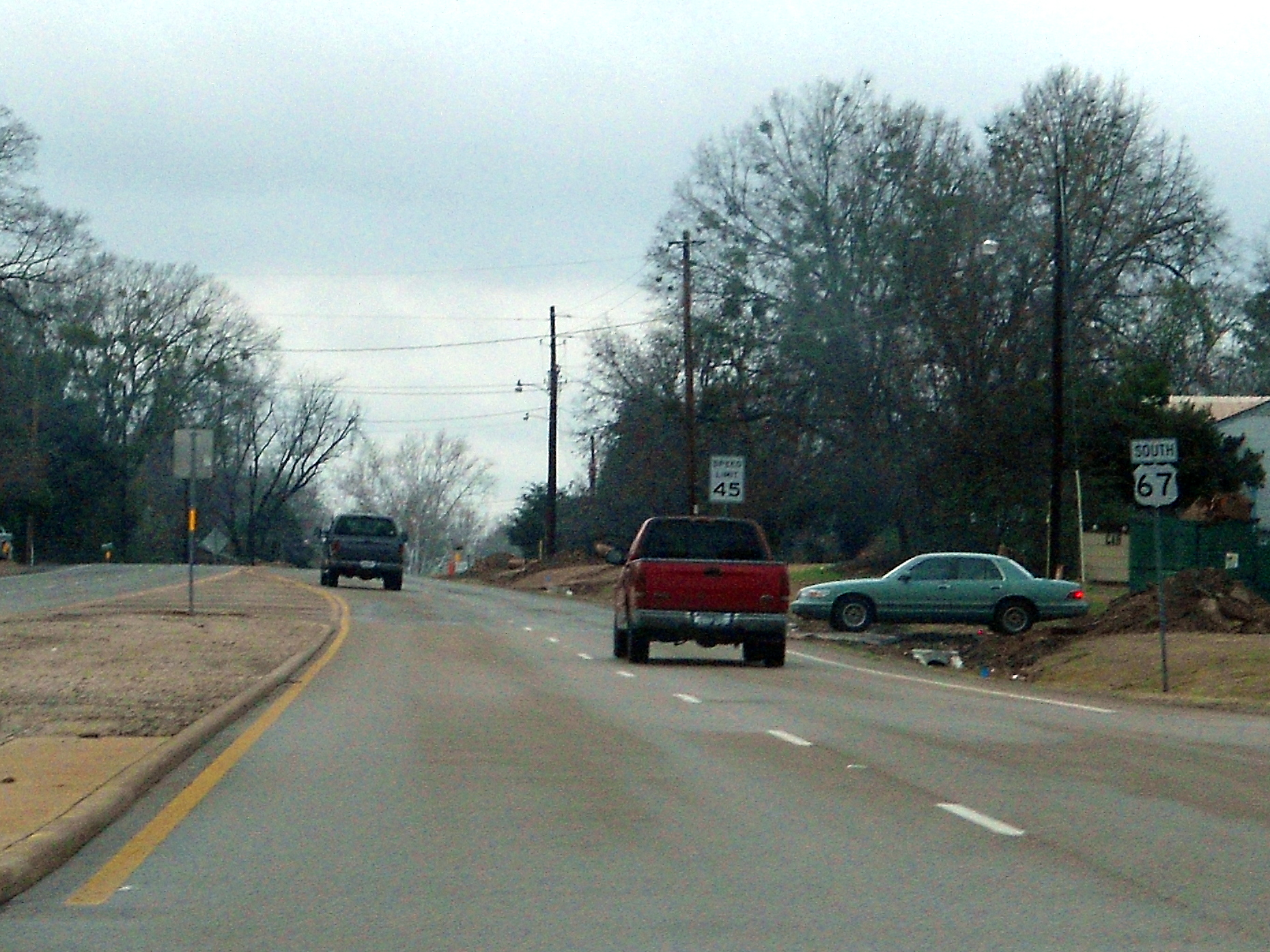 US 67 in Omaha, TX. At US 259 junction.